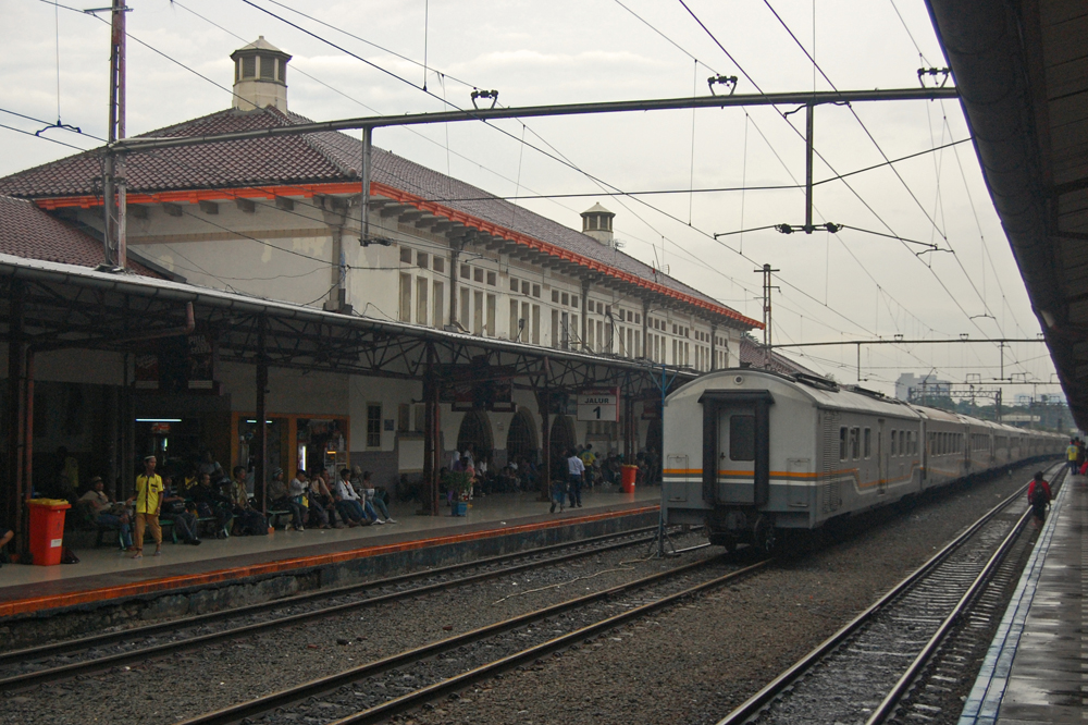 Pasar Senen (PSE) train station at Jakarta